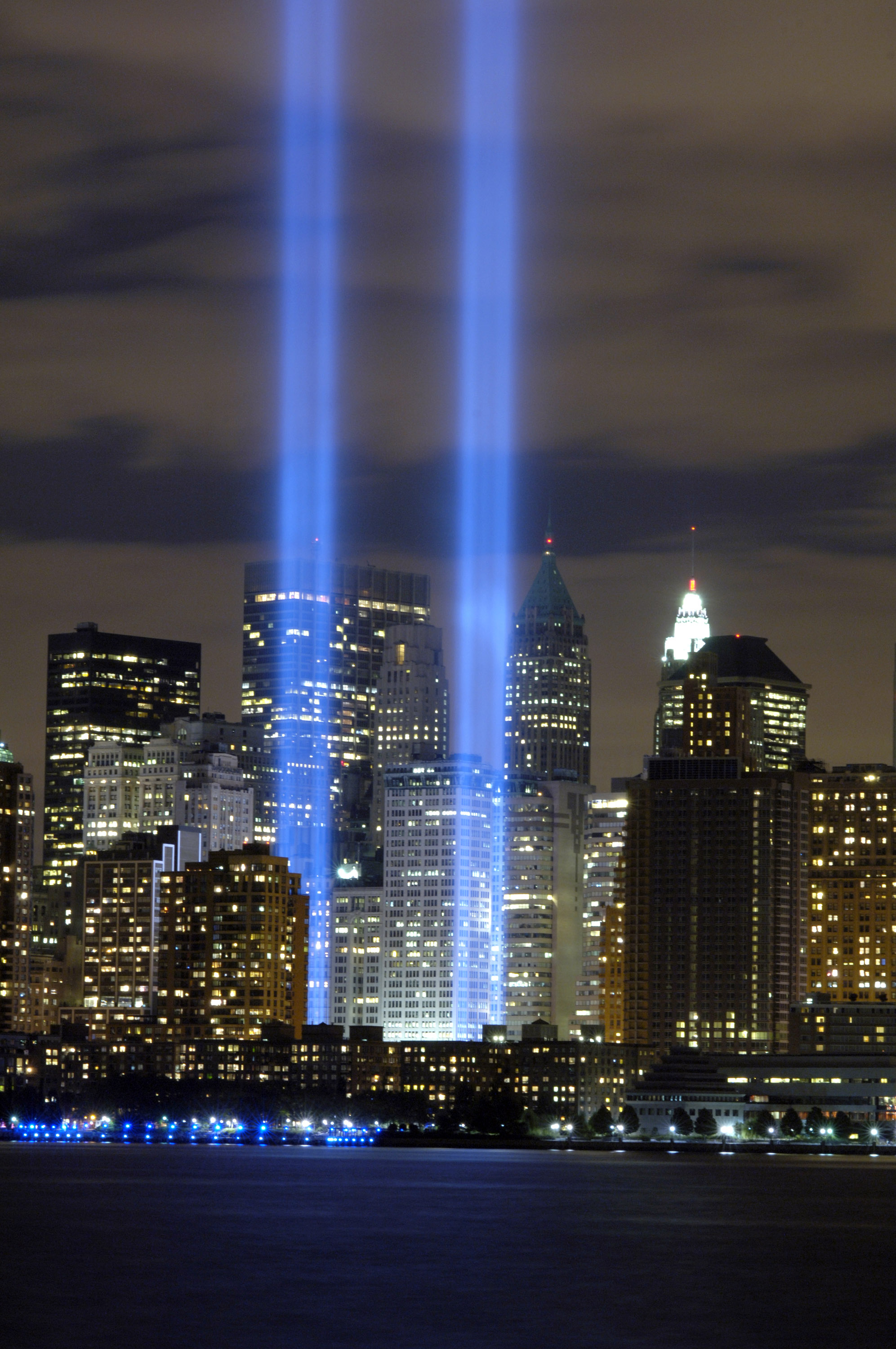 The "Tribute in Light" memorial is in remembrance of the events of Sept. 11, 2001, in honor of the citizens who lost their lives in the World Trade Center attacks. The two towers of light are composed of two banks of high wattage spotlights that point straight up from a lot next to Ground Zero. This photo was taken from Liberty State Park, N.J., Sept. 11, 2006, the five-year anniversary of 9/11. (U.S. Air Force photo/Denise Gould)